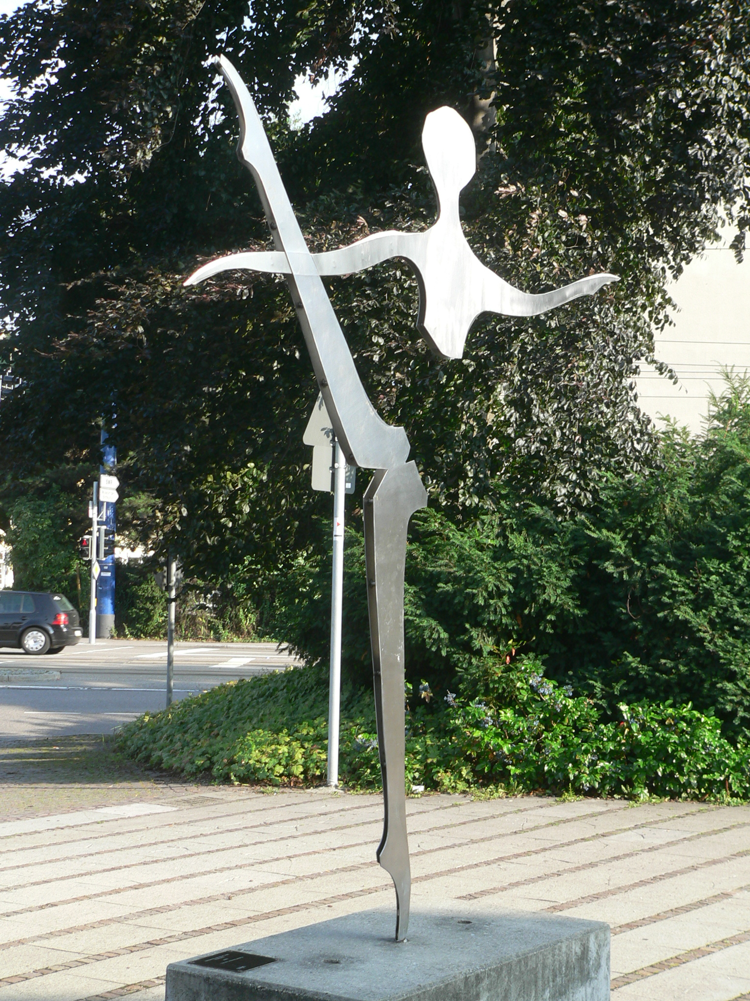 SOPHITIA (die tanzende Wahrheit by Rudolf Dentler, 1999, in Ulm, Germany